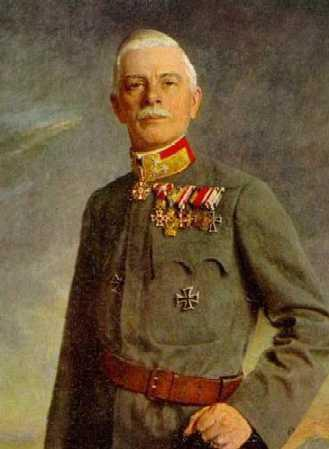 Rudolf Stöger-Steiner von Steinstätten (1861–1921), Colonel-General in the Austro-Hungarian army and the last Imperial Minister for War of the Austro-Hungarian Empire. Oil painting by Tom von Dreger